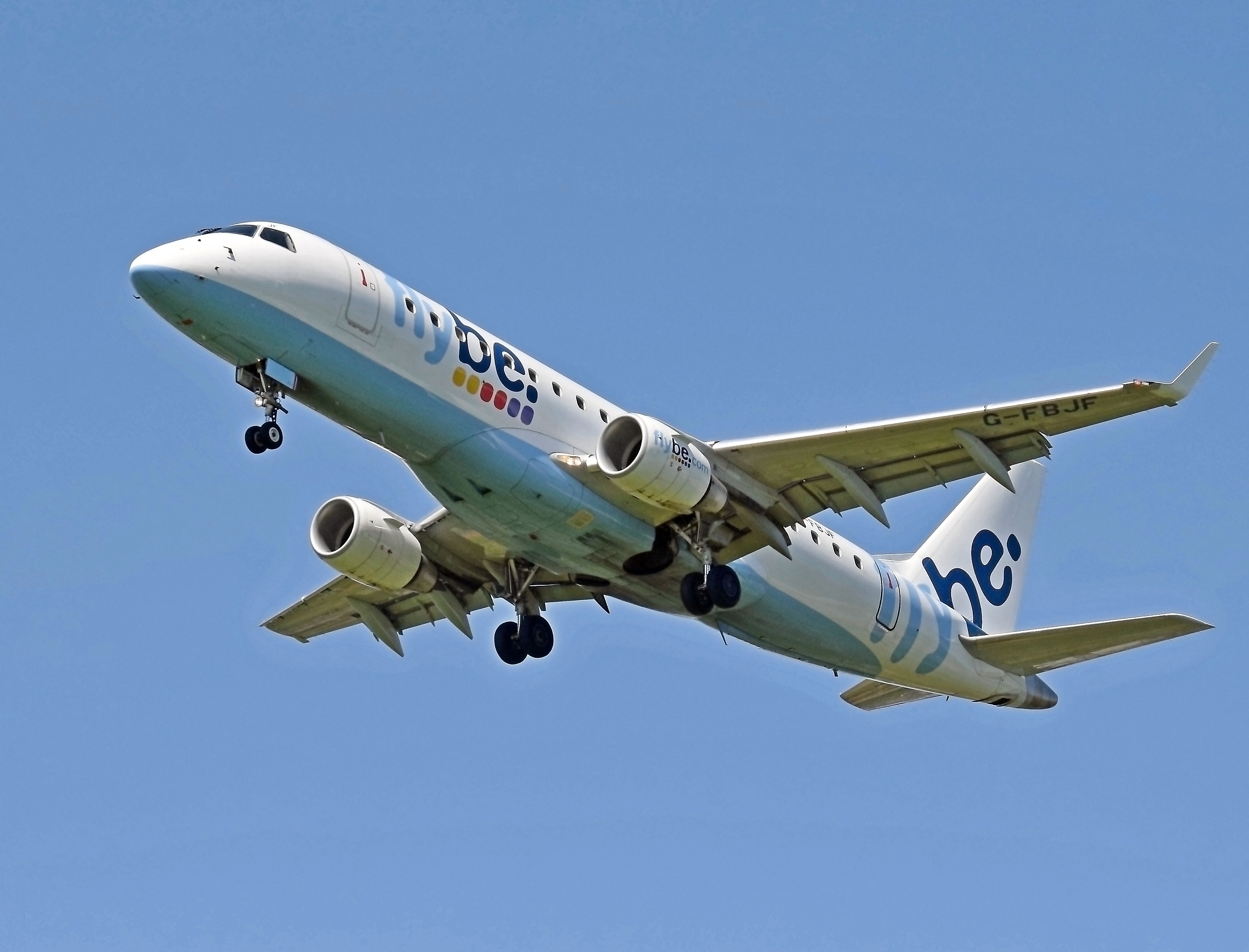 Embraer ERJ 175 (G-FBJF) of Flybe arrives Birmingham Airport, England. This aircraft was built 2012.